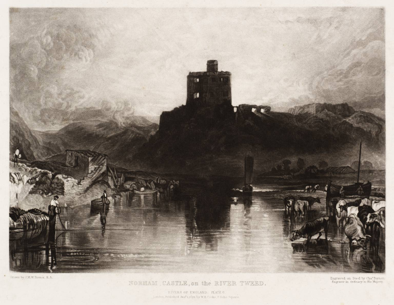 Norham Castle, on the River Tweed, engraved by Charles Turner 1824 Joseph Mallord William Turner 1775-1851 Purchased 1986